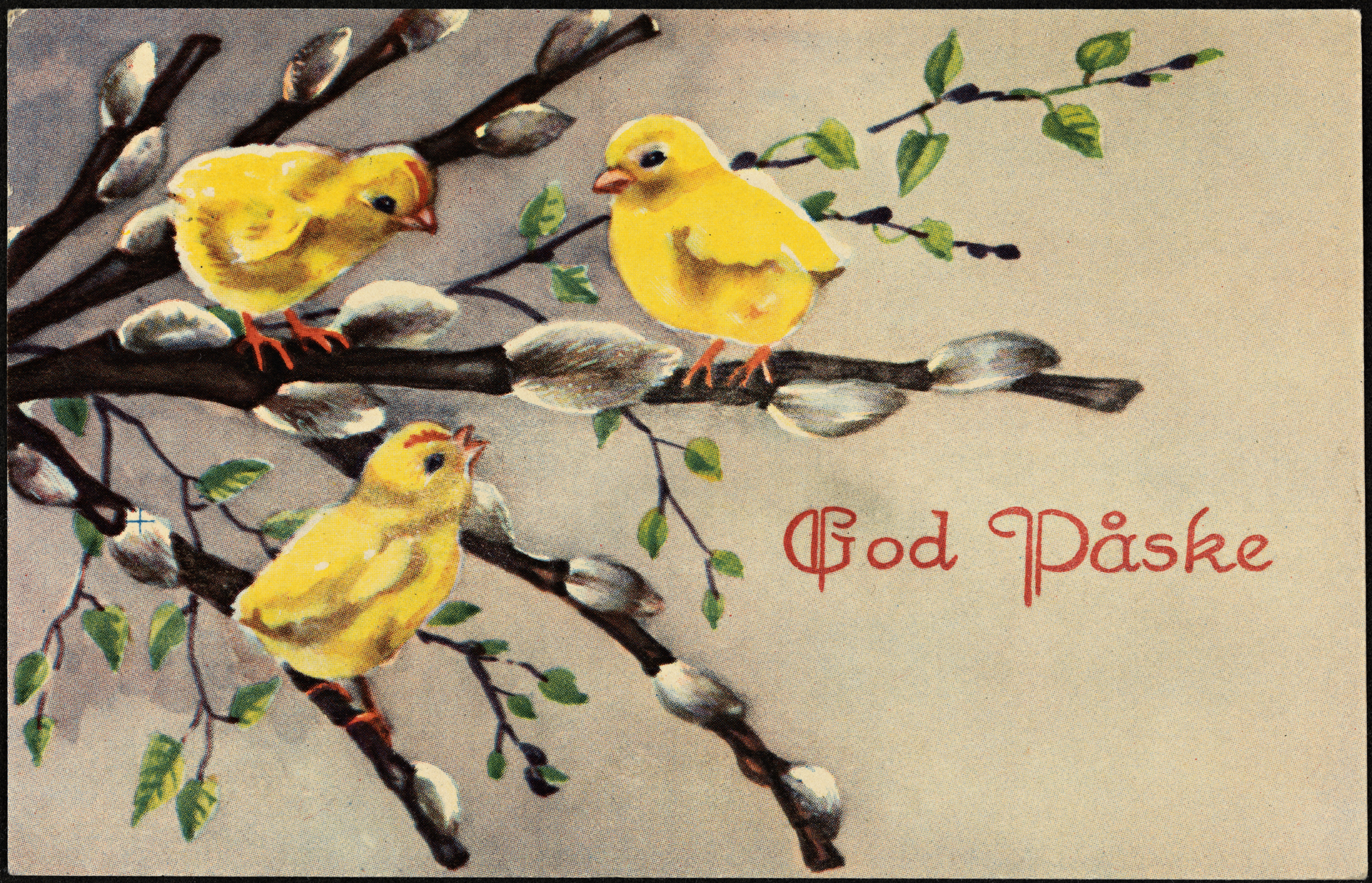 Tittel / Title: God påske / Happy Easter Motiv / Motif: Postkort. Dato / Date: ca 1947 Kunstner / Artist: ukjent / unknown Utgiver / Publisher: Eberh. B. Oppi Eier / Owner Institution: Nasjonalbiblioteket / National Library of Norway Lenke / Link: Bildesignatur / Image Number: blds_04802